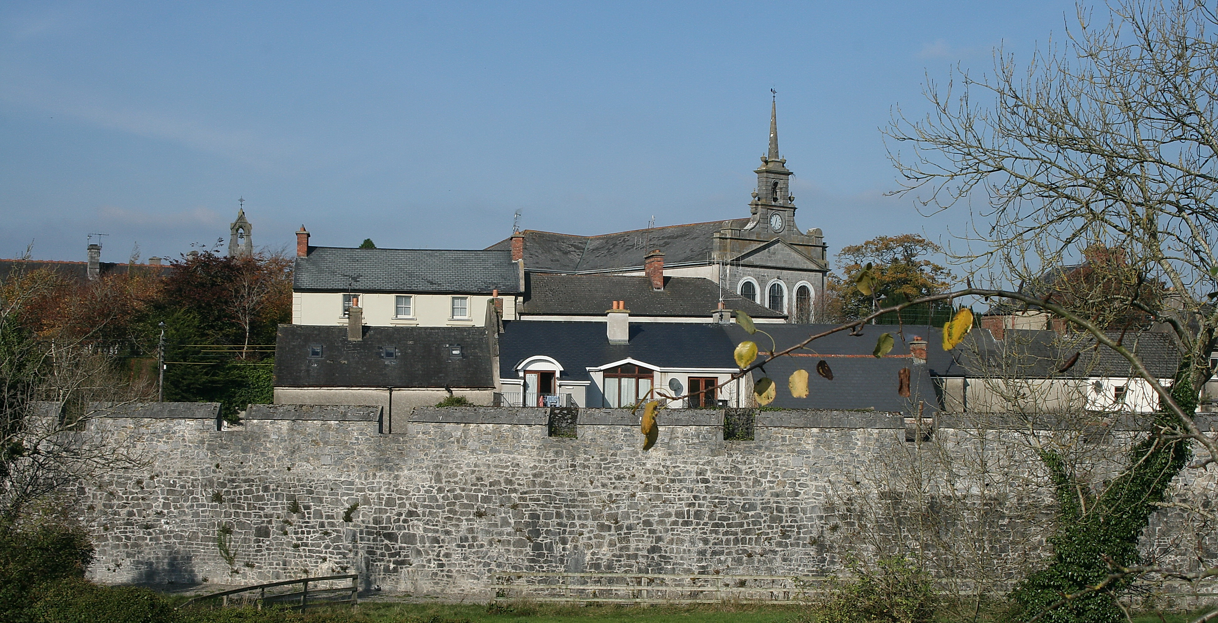 Section of Fethard town wall along the northern bank of the Clashawley River in County Tipperary, Ireland